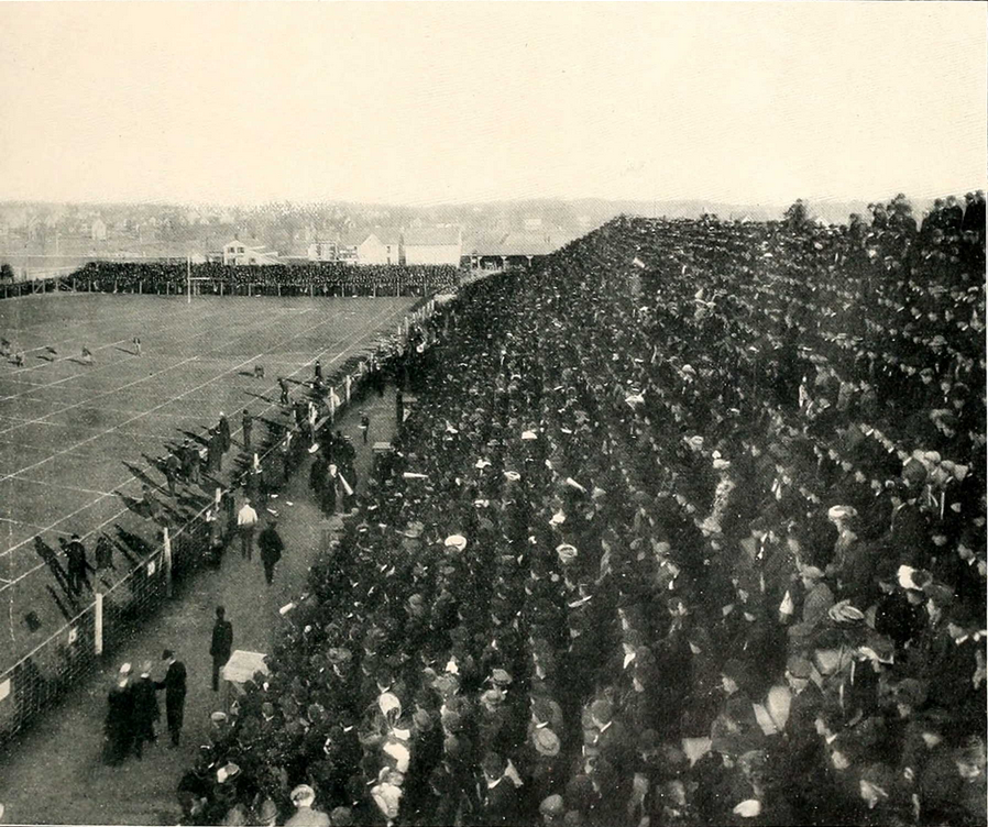 Photograph of football game between Michigan and Chicago, 1904, "Just Before the Kick-off at the Chicago-Michigan Football Game for the Western Championship."